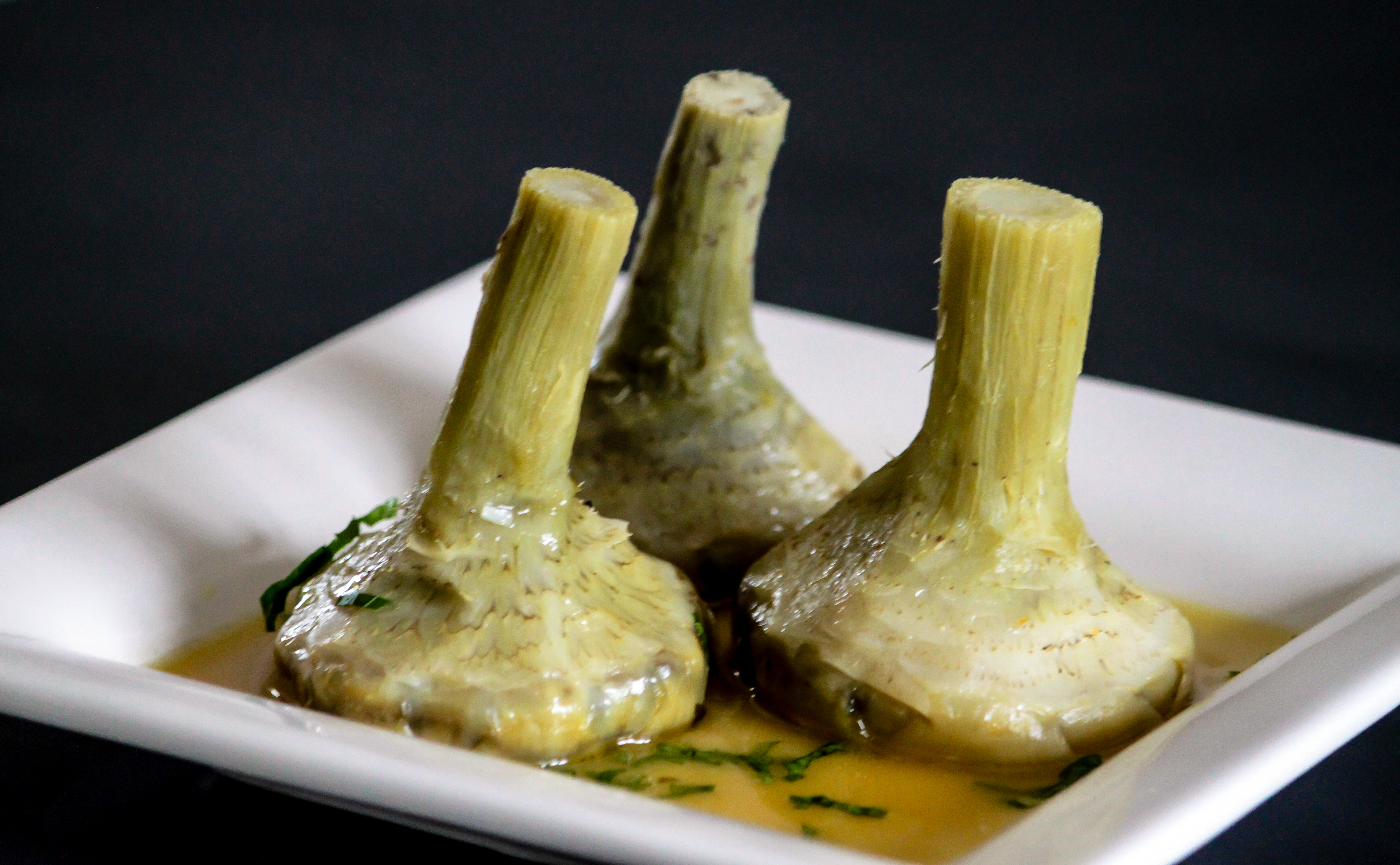 Roman style artichokes - Italy